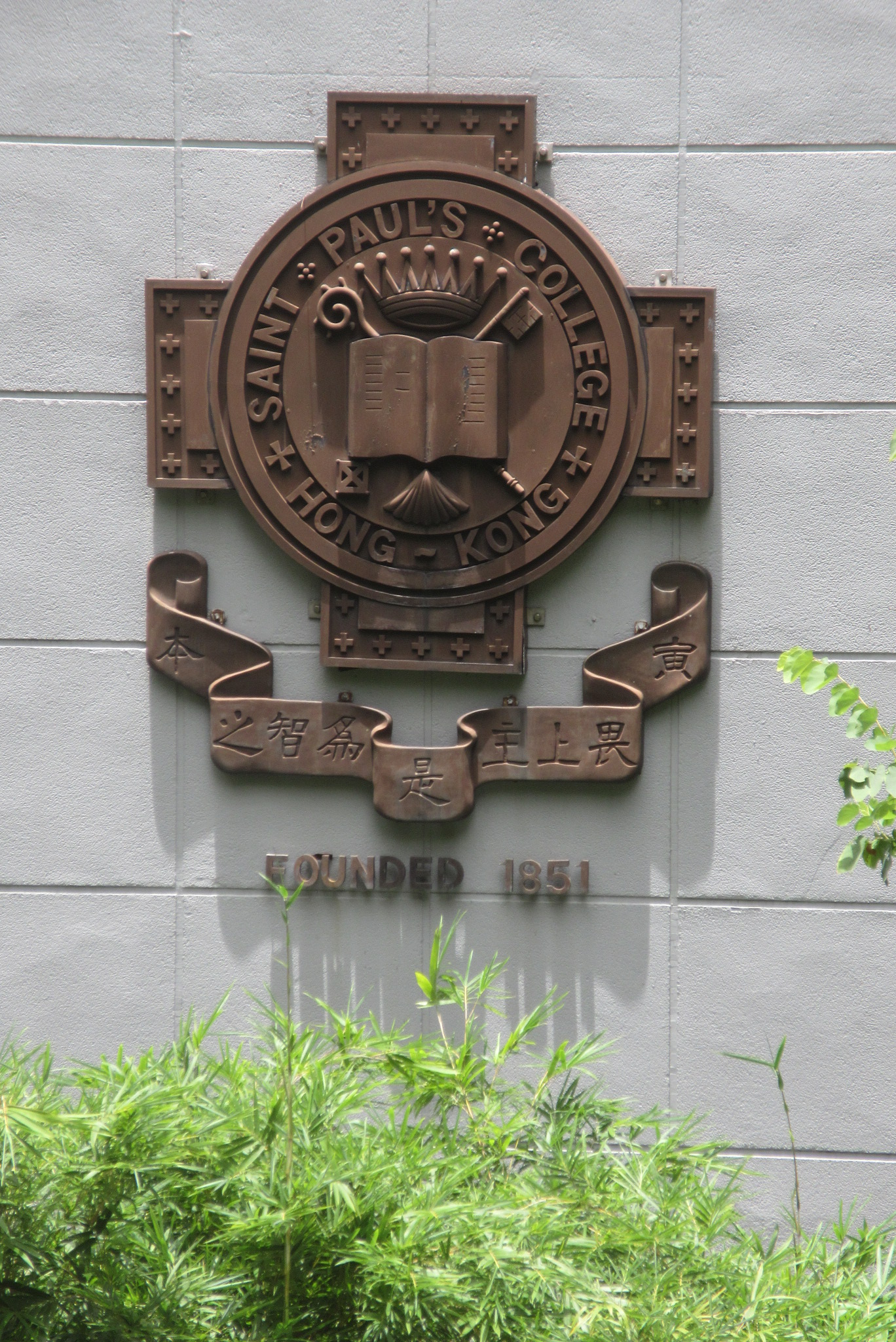 HK SYP Bonham Road Saint Paul's College logo sign in August 2017